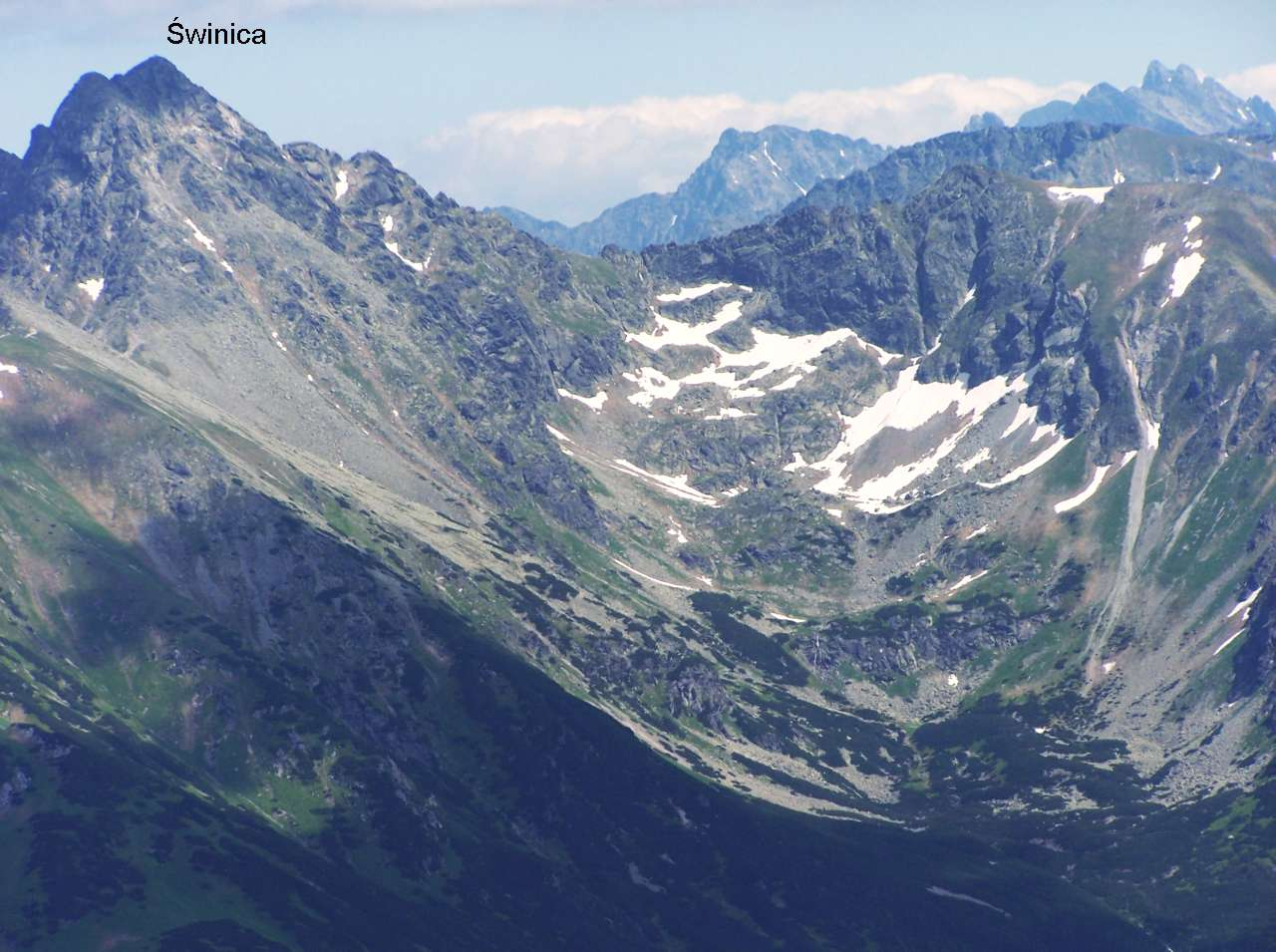 Świnica and Dolina Walentkowa (Tatra Mountains)